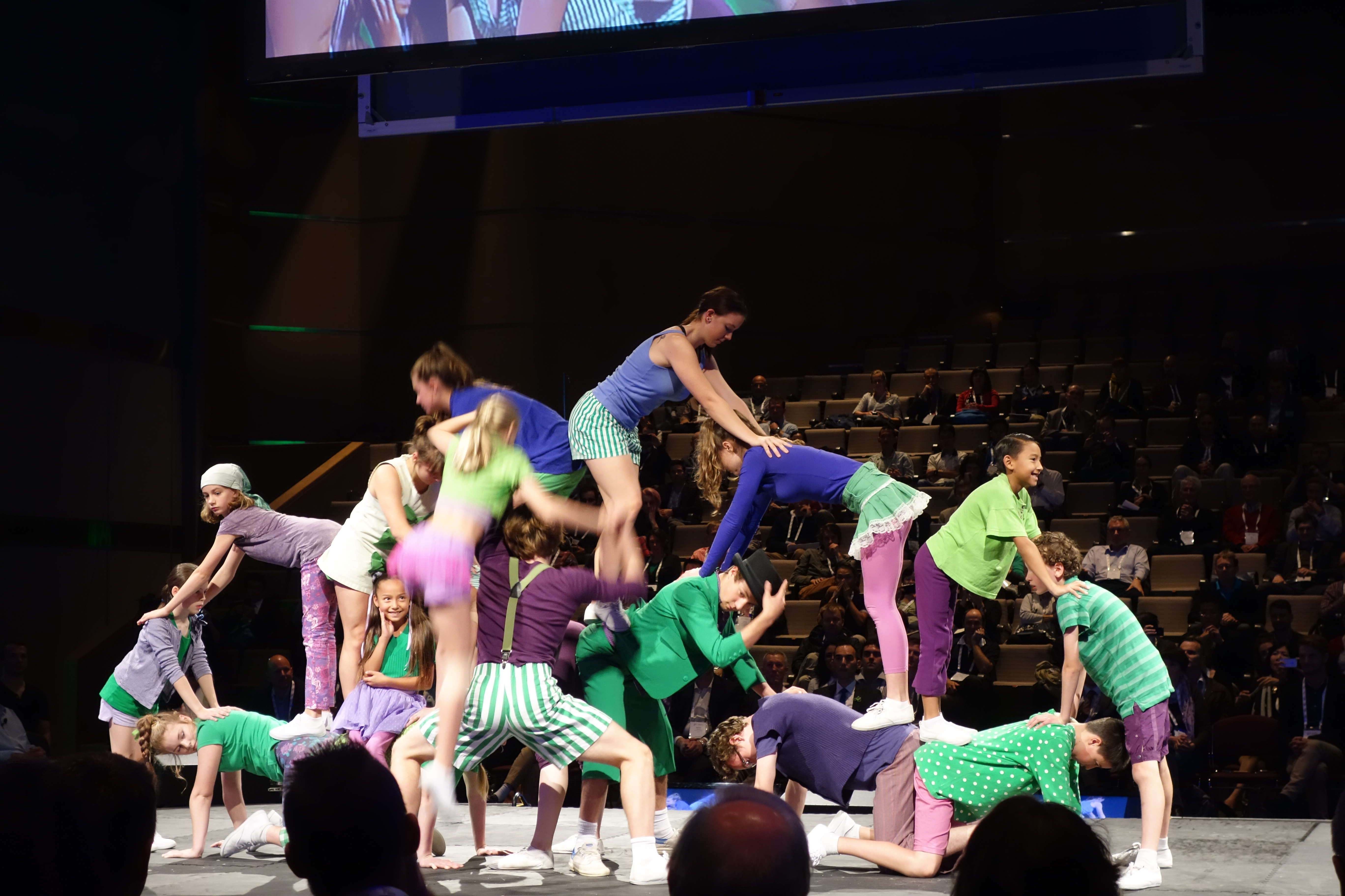 Cirkidz